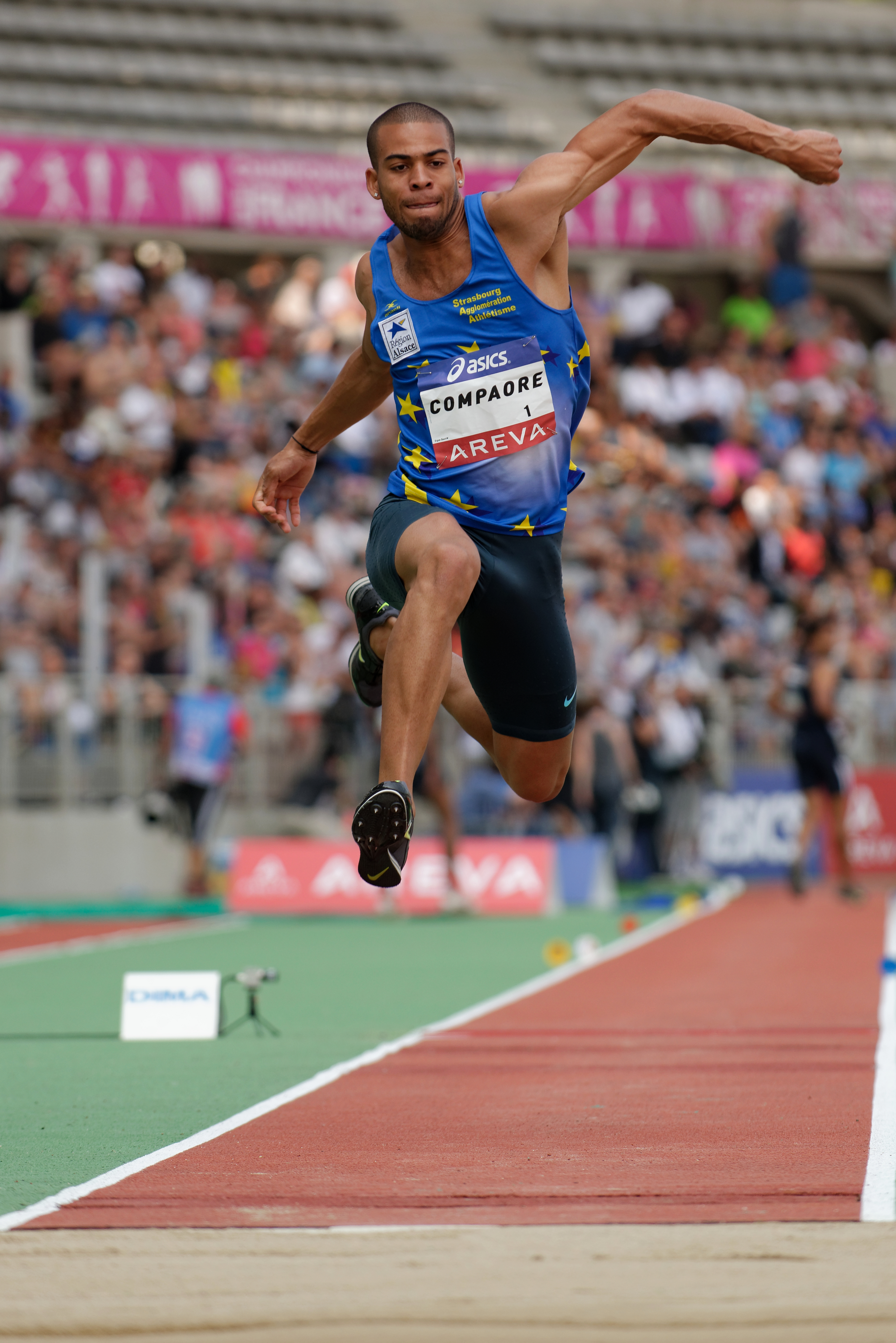 Benjamin Compaoré competes in the men's triple jump final during the French Athletics Championships 2013 at Stade Charléty in Paris, 13 July 2013.